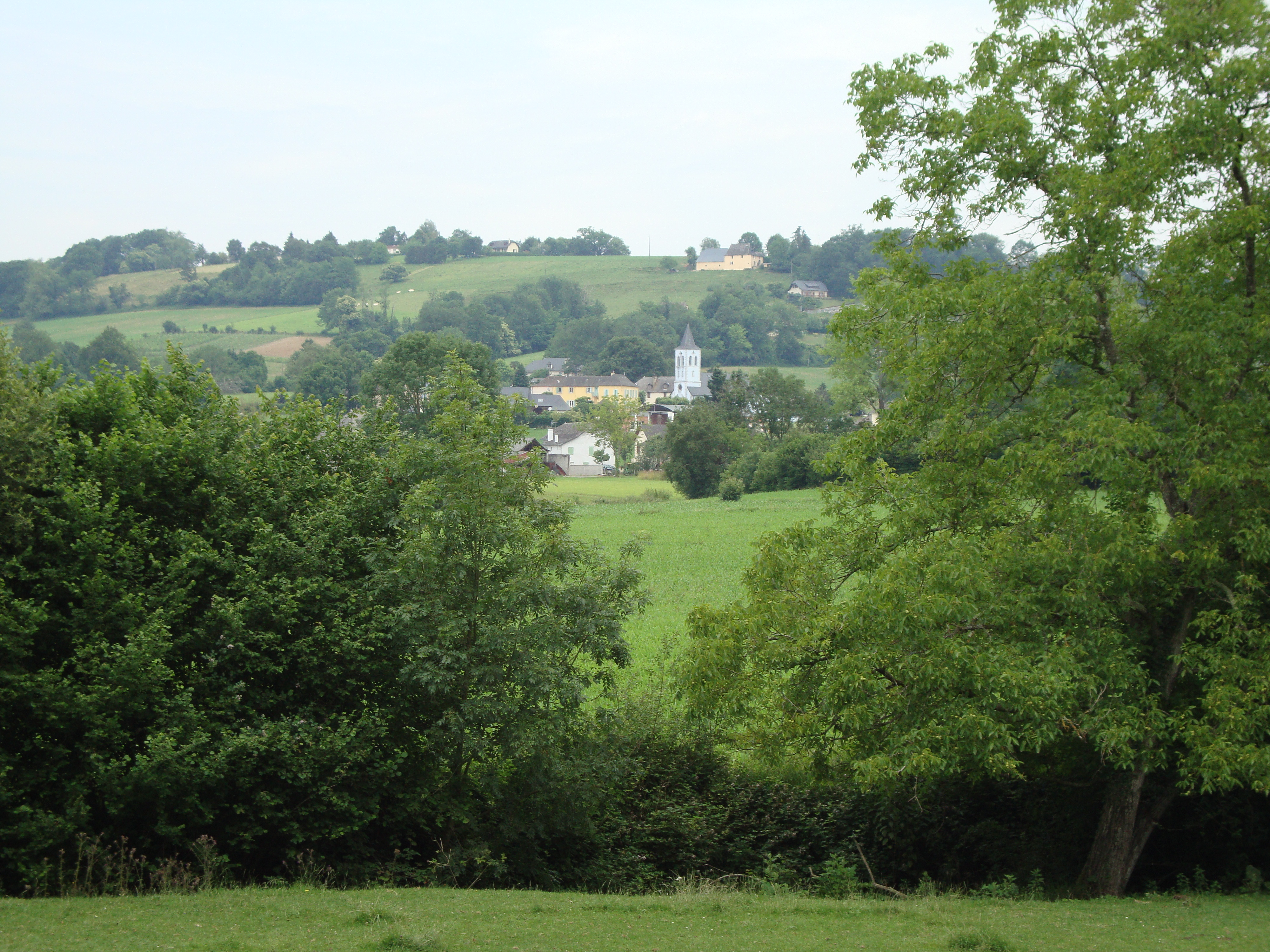 Estialesq (Pyr-Atl, Fr) village view, foreground: the Auronce (river).